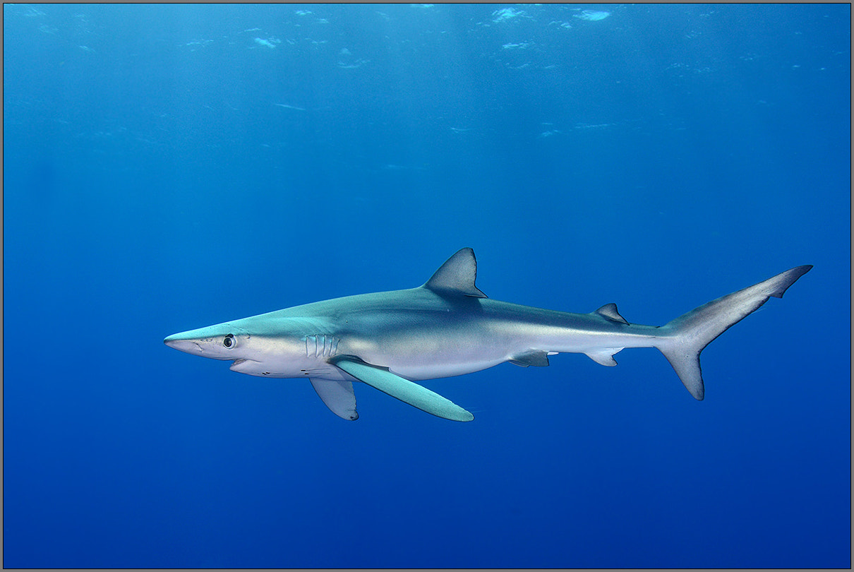 500px provided description: Blauhai vor den Azoren im Atlantik [#sea ,#water ,#blue ,#ocean ,#atlantic ,#blau ,#wasser ,#unterwasser ,#azoren ,#unterwater ,#hugyfot ,#Hai ,#Shark ,#blue shark ,#sonnestrahlen ,#bluesh ,#Blauhai]